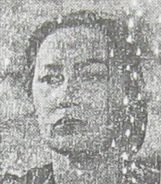 Indonesian actress Fifi Young